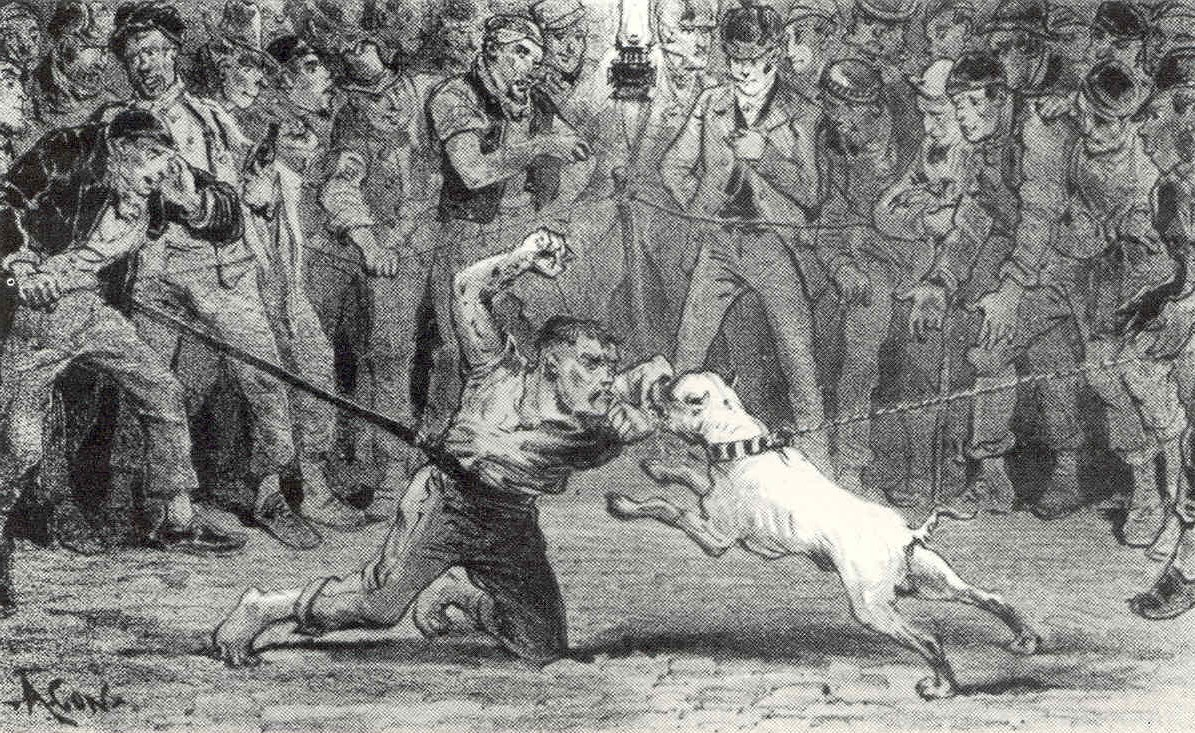 "Physic and Brummy, An Evening at Hanley", from the Daily Telegraph circa 1874. From the private collection of Headphonos.